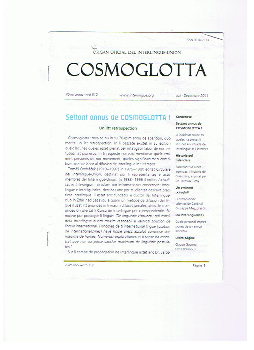 Frontpage of the Interlingue journal Cosmoglotta